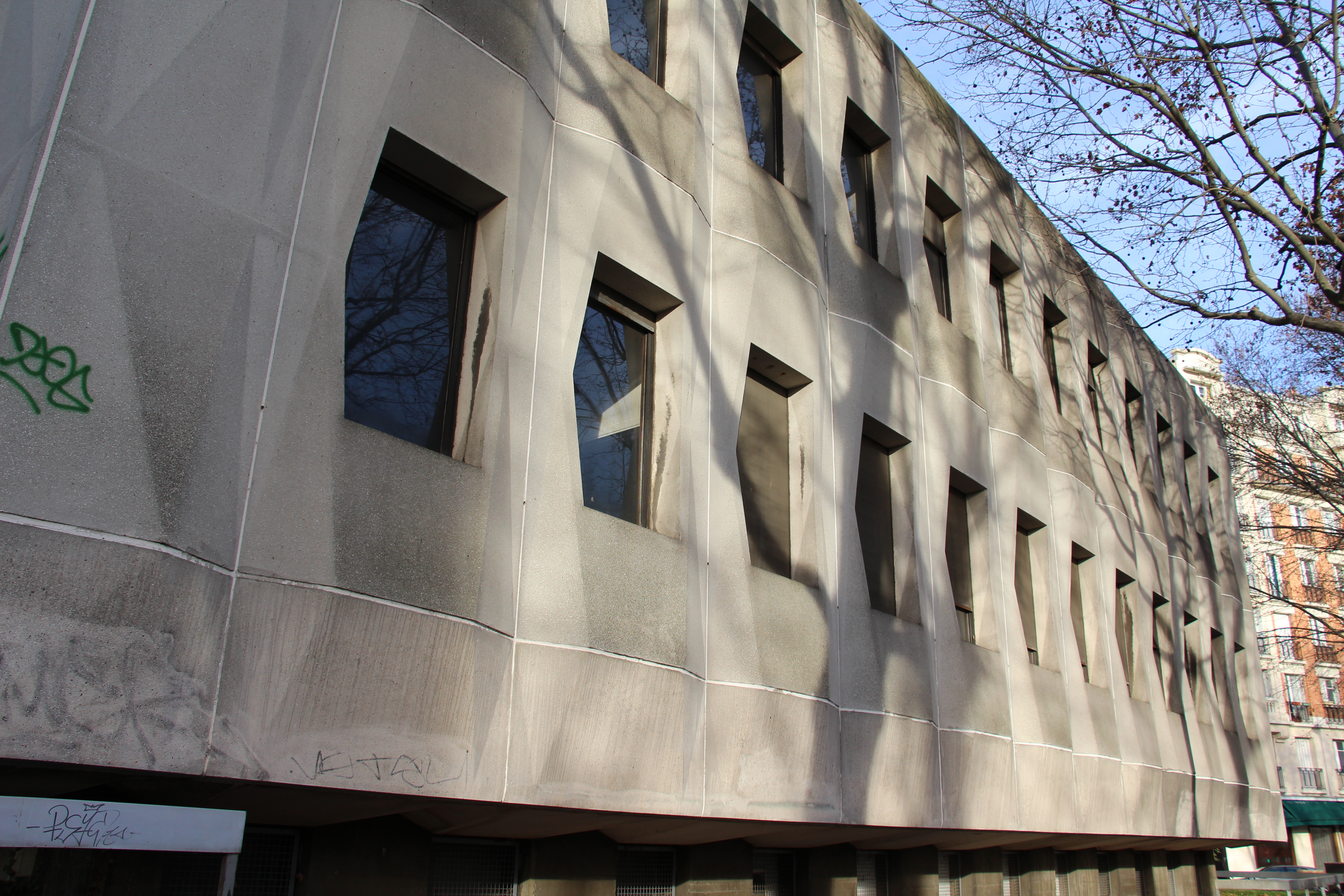 (Auteuil) Rue Wilhem INSERM, Institut National de la Santé et de la Recherche Médicale (National Institute of Health and Medical Research).